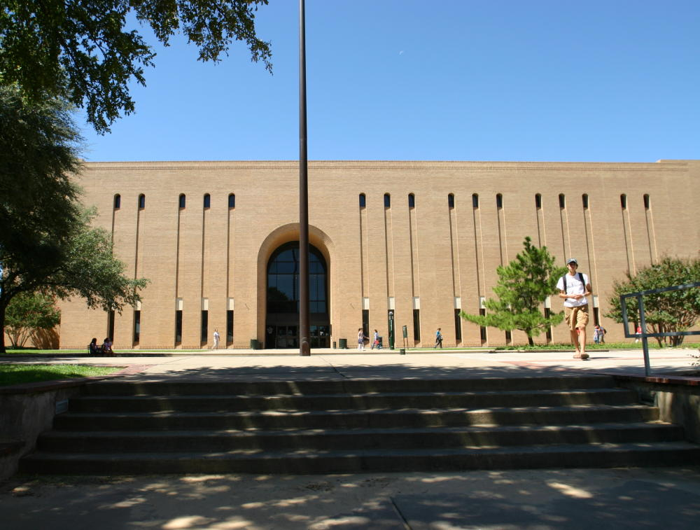 The Willis Library: Willis Library on the University of North Texas Campus, Denton, Texas